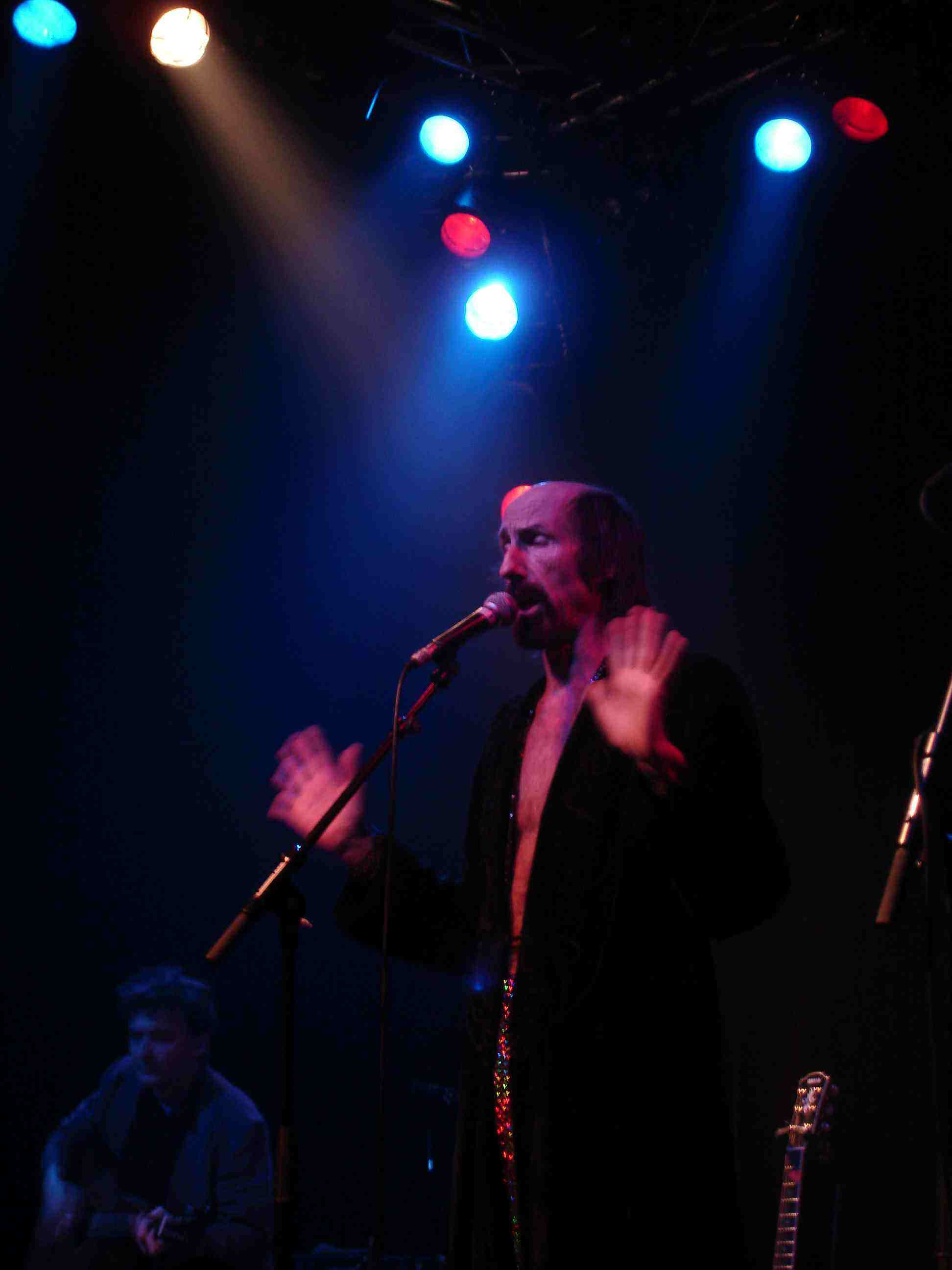 Arthur Brown live in concert.